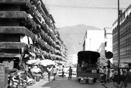 Caption: Lok Fu Estate, one of the government-owned housing blocks in China. 1973. Citation: Mennonite Board of Missions Photograph Collection. Mission to China and Taiwan. IV-10-7.2 Box 2 Folder 29, Photo #16. Mennonite Church USA Archives - Goshen. Goshen, Indiana.